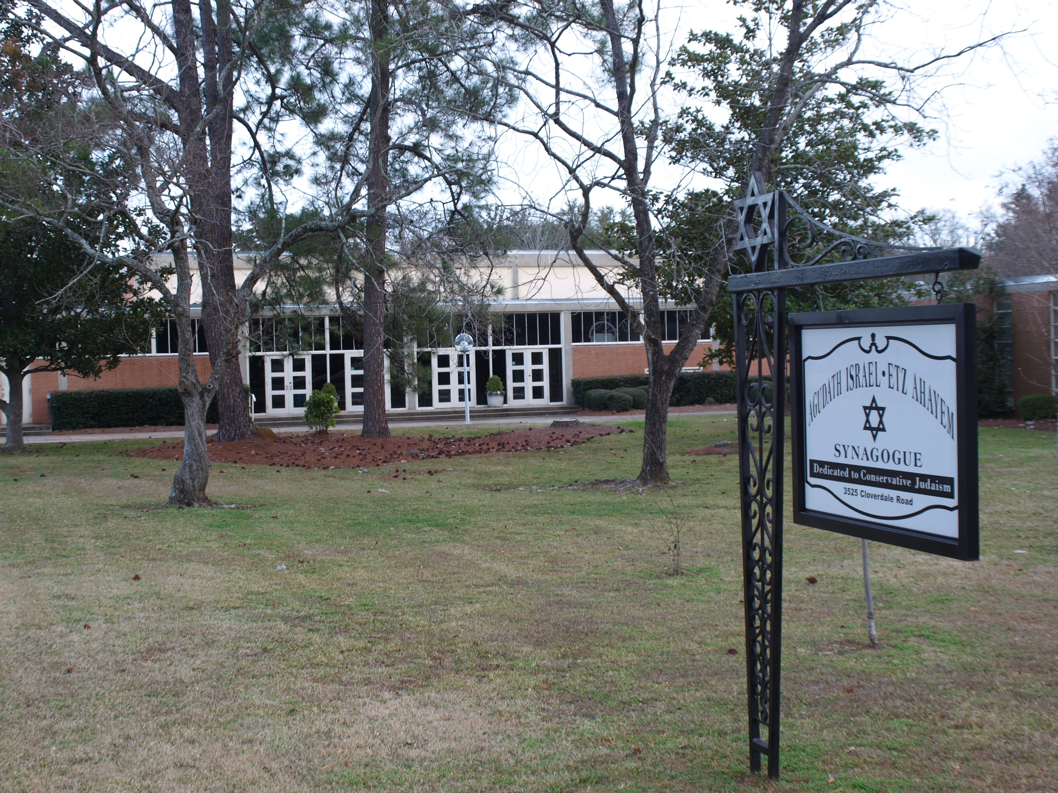 Agudath Israel Etz Ahayem synagogue in Montgomery, Alabama, USA